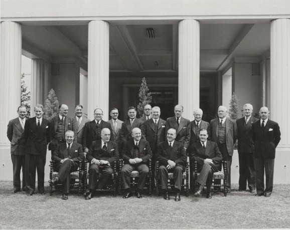 The 11 May 1951 to 9 July 1954 Menzies Liberal/ Country Party Ministry. Left to right, seated: Harold Holt, Minister for Labour and National Service and Minister for Immigration Robert Menzies, Prime Minister William McKell, Governor-General Eric Harrison, Minister for Defence Production and Vice-President of the Executive Council John McEwen, Minister for Commerce and Agriculture Standing: Paul Hasluck, Minister for Territories Walter Cooper, Minister for Repatriation Howard Beale, Minister for Supply Athol Townley, Minister for Social Services George McLeay, Minister for Shipping and Transport Philip McBride, Minister for Defence and Minister for Air Larry Anthony, Postmaster-General and Minister for Civil Aviation John Spicer, Attorney-General Josiah Francis, Minister for the Army Richard Casey, Minister for External Affairs and Minister in charge of the CSIRO Sir Earle Page, Minister for Health Bill Spooner, Minister for National Development Wilfrid Kent Hughes, Minister for the Interior and Minister for Works and Housing William McMahon, Minister for Air Absent: Arthur Fadden, Treasurer Neil O'Sullivan, Minister for Trade and Customs